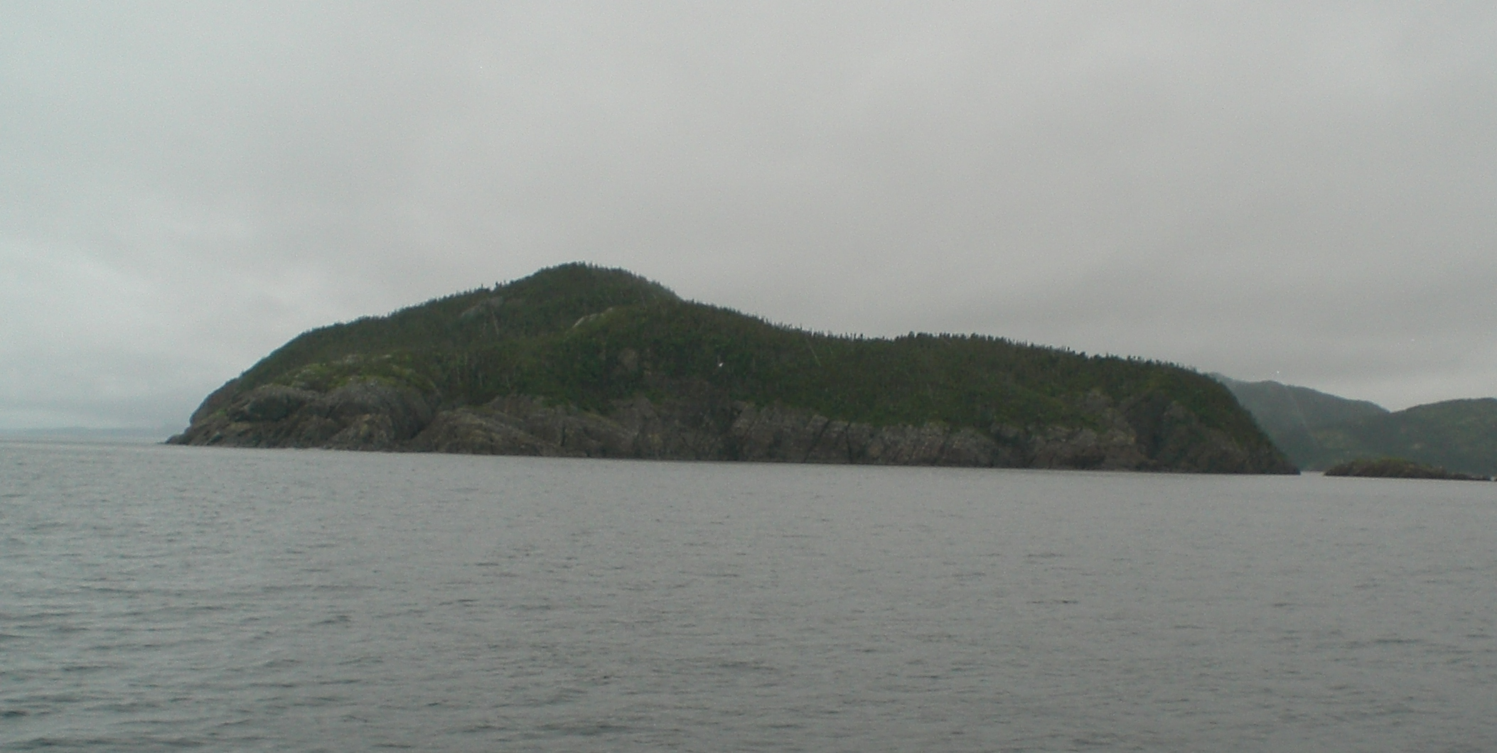 Photo of Keats Island Bonavista Bay